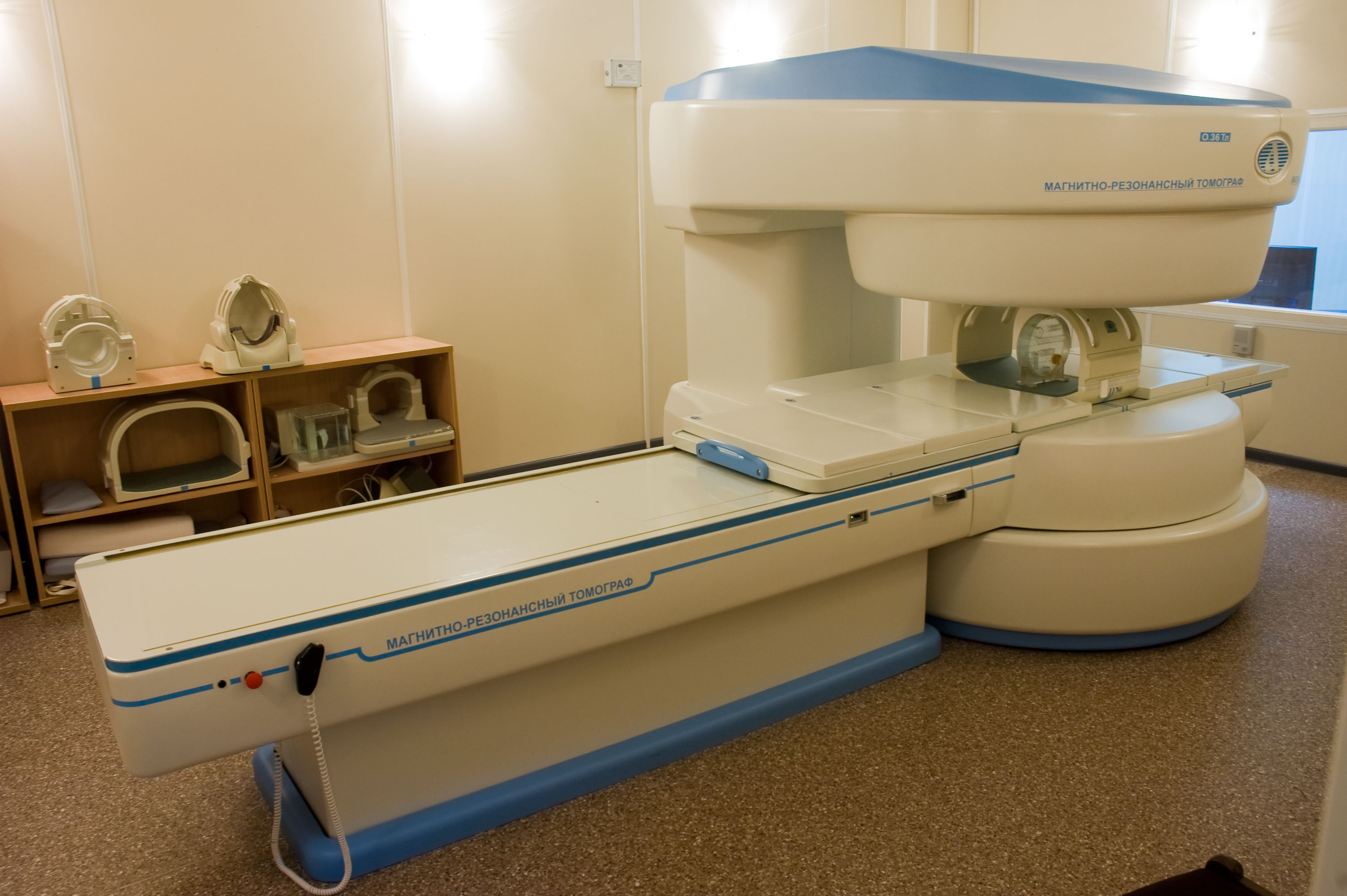 open mri